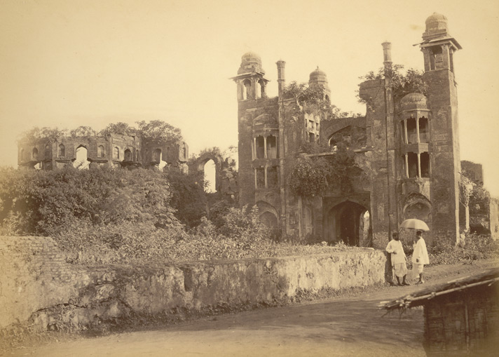 Lalbagh Fort, south entrance, south view. Photograph taken in the 1870s by an unknown photographer of the Lal Bagh Fort in Dhaka, now the capital of Bangladesh. Prince Muhammad Azam, the son of the Mughal Emperor Aurangzeb, began building the Fort in about 1677 but it was never completed. One of the principal attractions in the Old City of Dhaka, it has three storeys and the complex contains many buildings including the tomb of Pari Bibi or 'Fairy Lady', the wife of a Mughal governor of Bengal, and a huge mosque. The area has a hot, damp tropical climate and is flooded periodically by waters from the Bay of Bengal as well as from the yearly moonsoon. By the 19th century many of the once-elegant Mughal buildings in the city were left in ruins by the action of both the climate and the resultant wildly luxuriant overgrowth of trees and vegetation which lent them a picturesque look and made them popular subjects for artists and photographers.